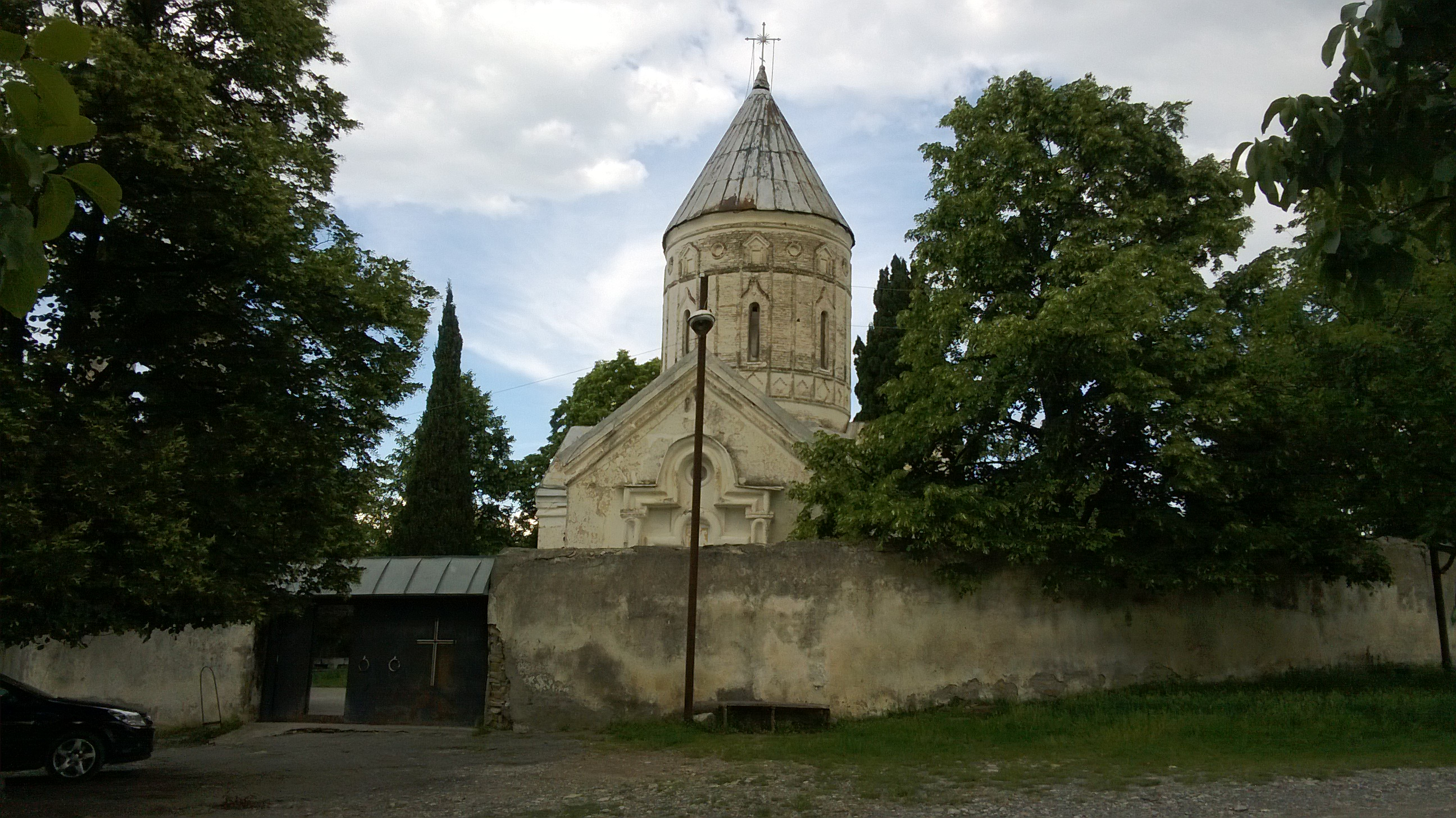 Saint George church (white giorgi), Georgia